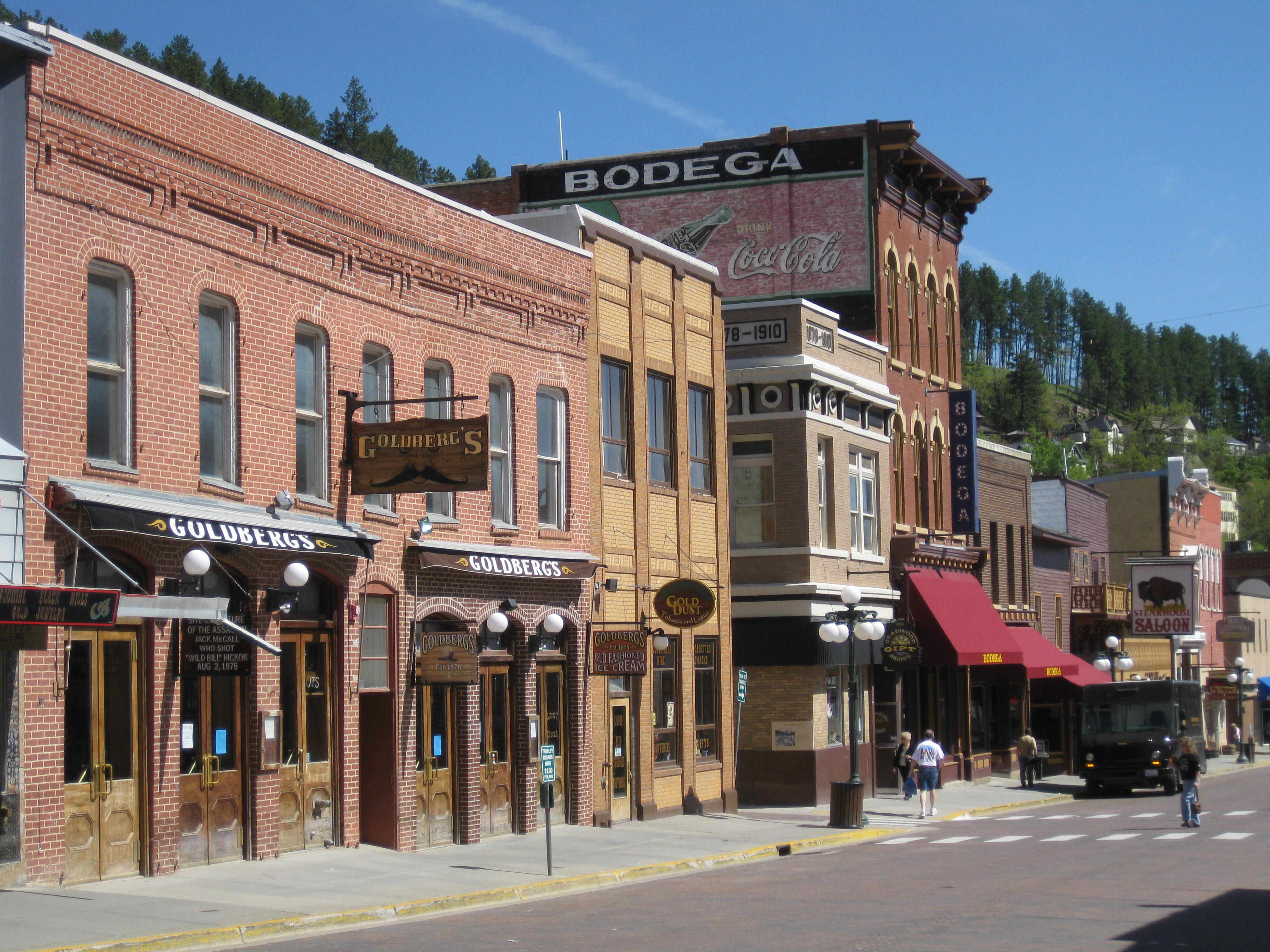 Main Street in Deadwood, South Dakota, United States